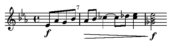 Interlude of the fourth movement in Schumann's symphony no.3, bars 6-8